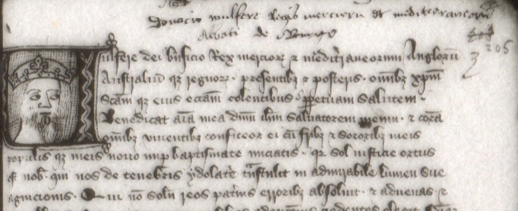 Detail of a 14th-century transcription of a charter in the name of King Wulfhere of Mercia (Sawyer 68), with an image of the king in the initial letter 'U'. Monochrome photograph.